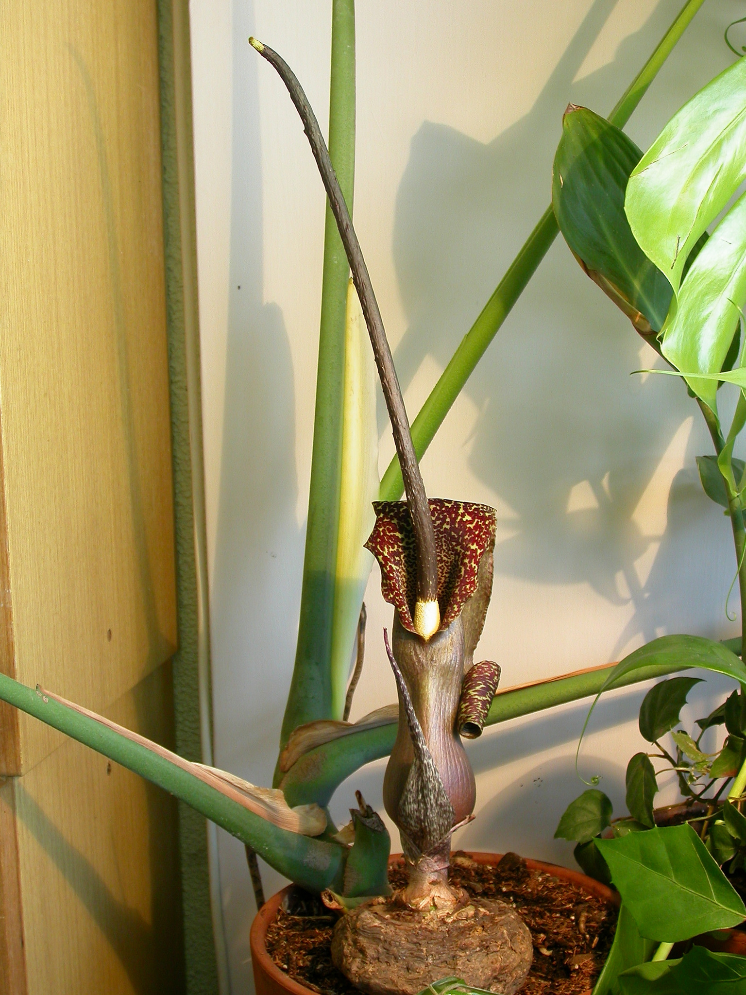 Sauromatum venosum flowering from tuber